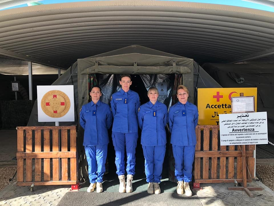 4 II.VV. nel Field Hospital a Misurata (Libia) delle Forse Armate italiane impegnate nella Missione Ippocrate